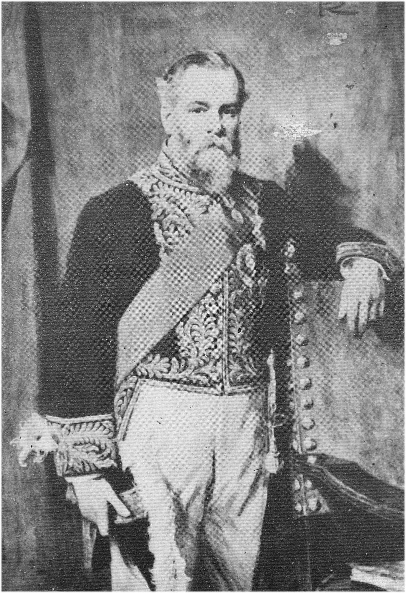 Victor Bruce, 9th Earl of Elgin